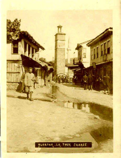 Florina Clock Tower